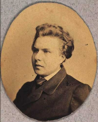 Johan Erik Christian Petersen (1839-1874), Danish marine painter